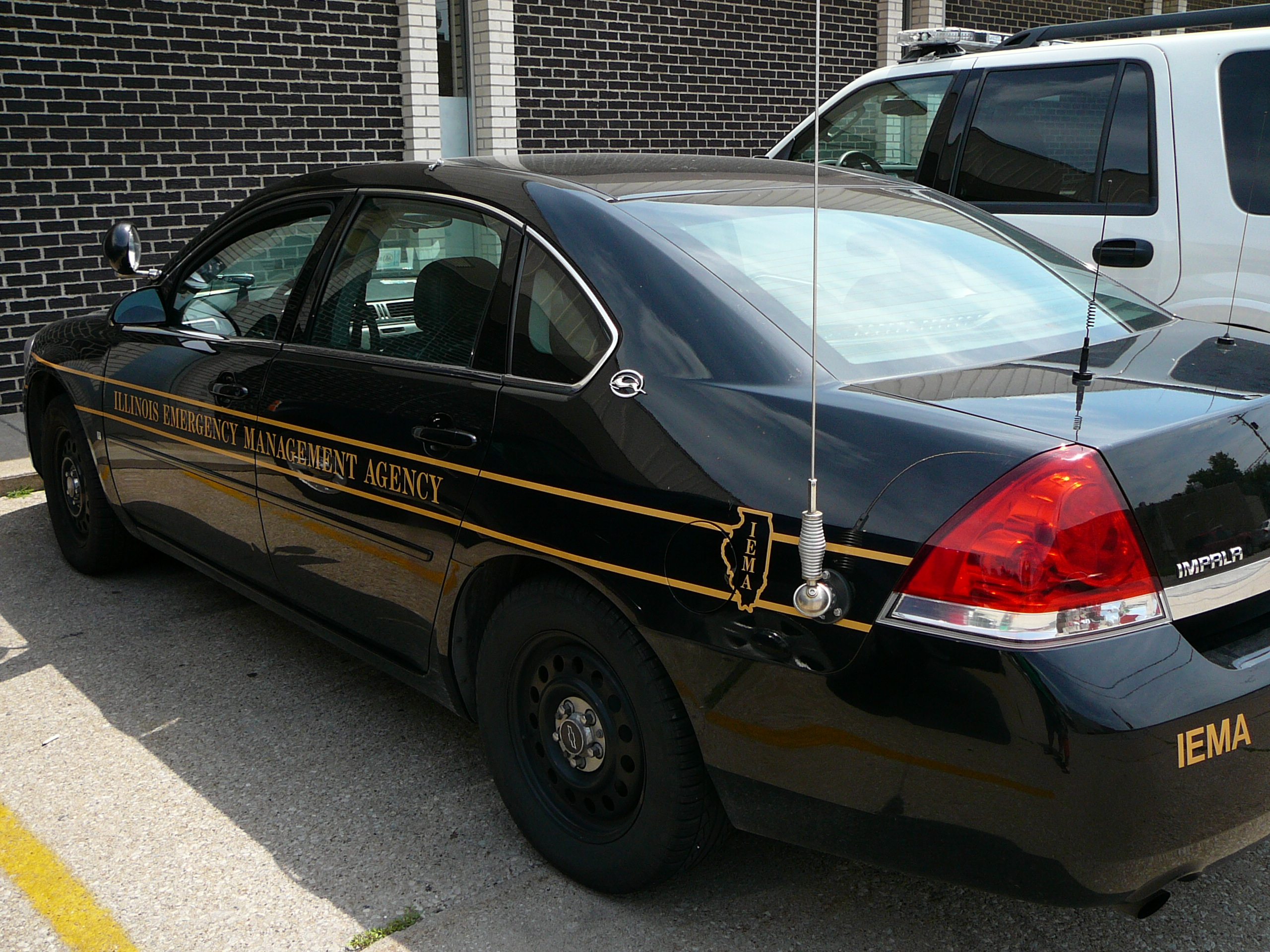 An Illinois Emergency Management Agency (IEMA) Marked Impala as pictured from a public street without occupants in Macomb, Illinois 61455